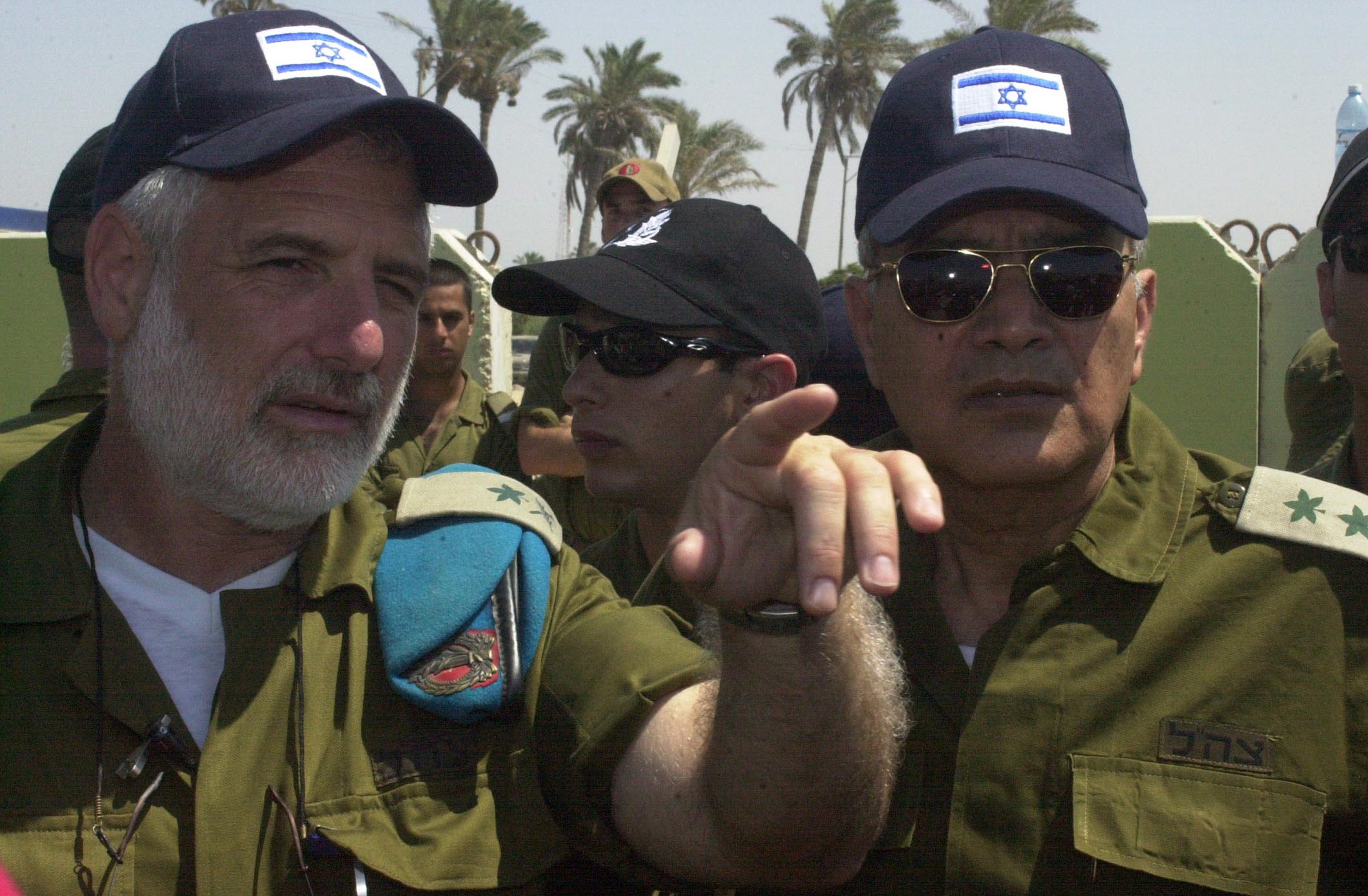 August 18, 2005. Then-Chief of the General Staff, Lt. Gen. Dan Halutz, and then-OC Southern Command, Maj. Gen. Dan Harel, visit during the evacuation of the Israeli community of Shirat Hayam. The evacuation of Shirat Hayaym was part of the Gaza Disengagement, which took place during the summer of 2005.